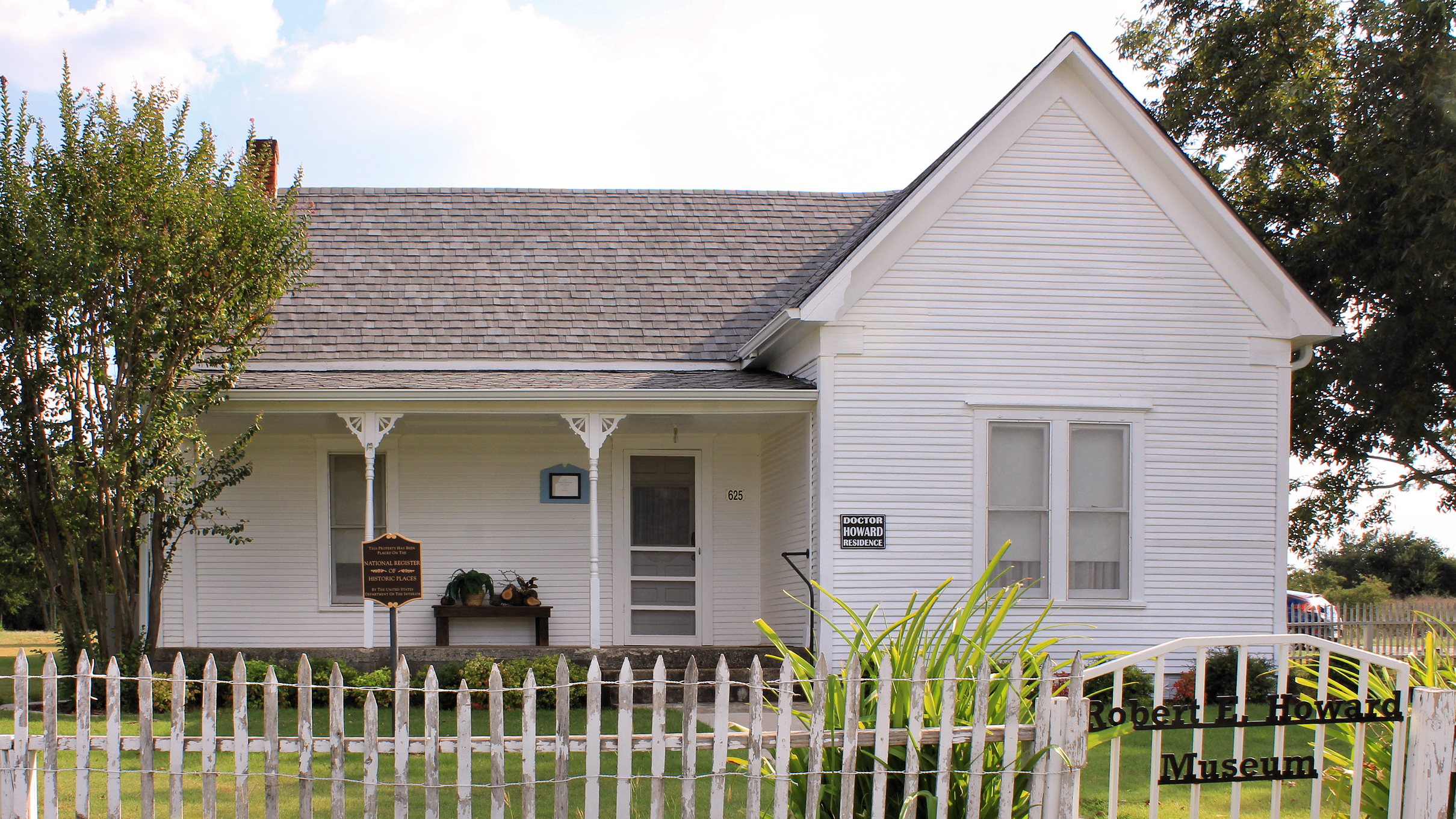 The Robert E Howard House Museum in Cross Plains, Texas, United States